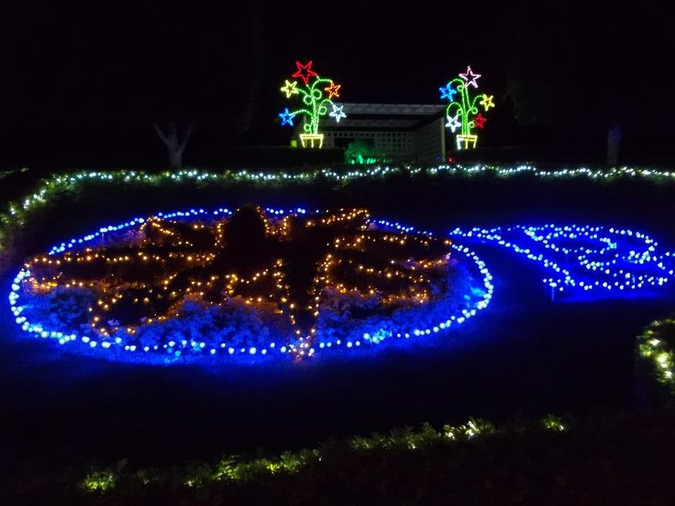 Hunter Valley Gardens Xmas Lights Spectacular Photo 2.jpg